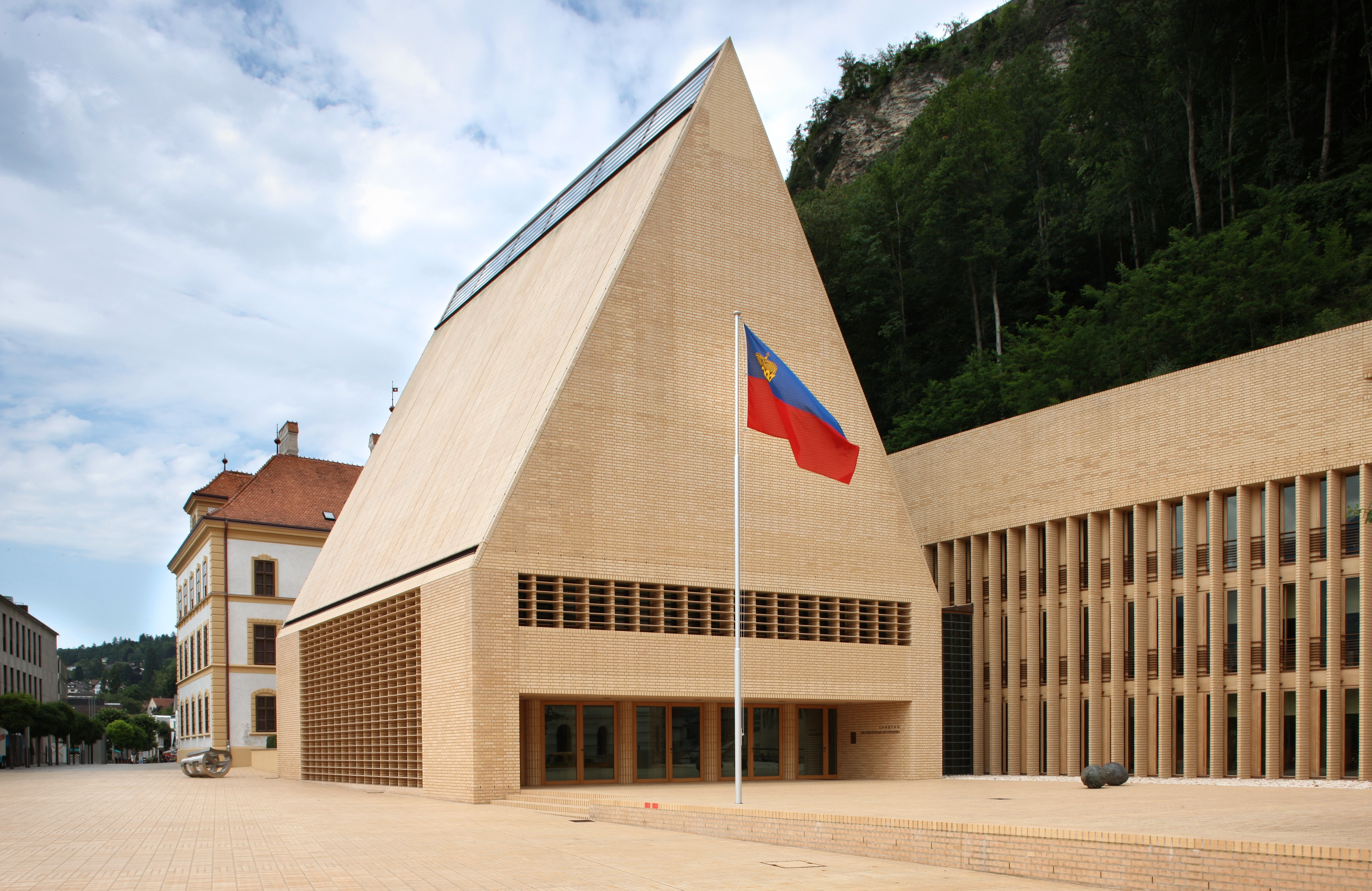 House of Parliament in Vaduz, Liechtenstein